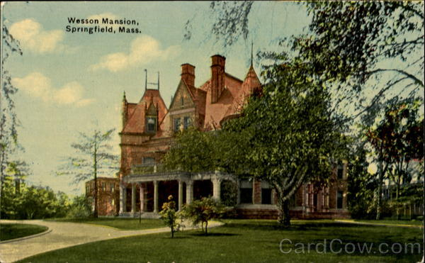 Wesson Mansion Springfield Massachusetts (MA) Stock #: 135484